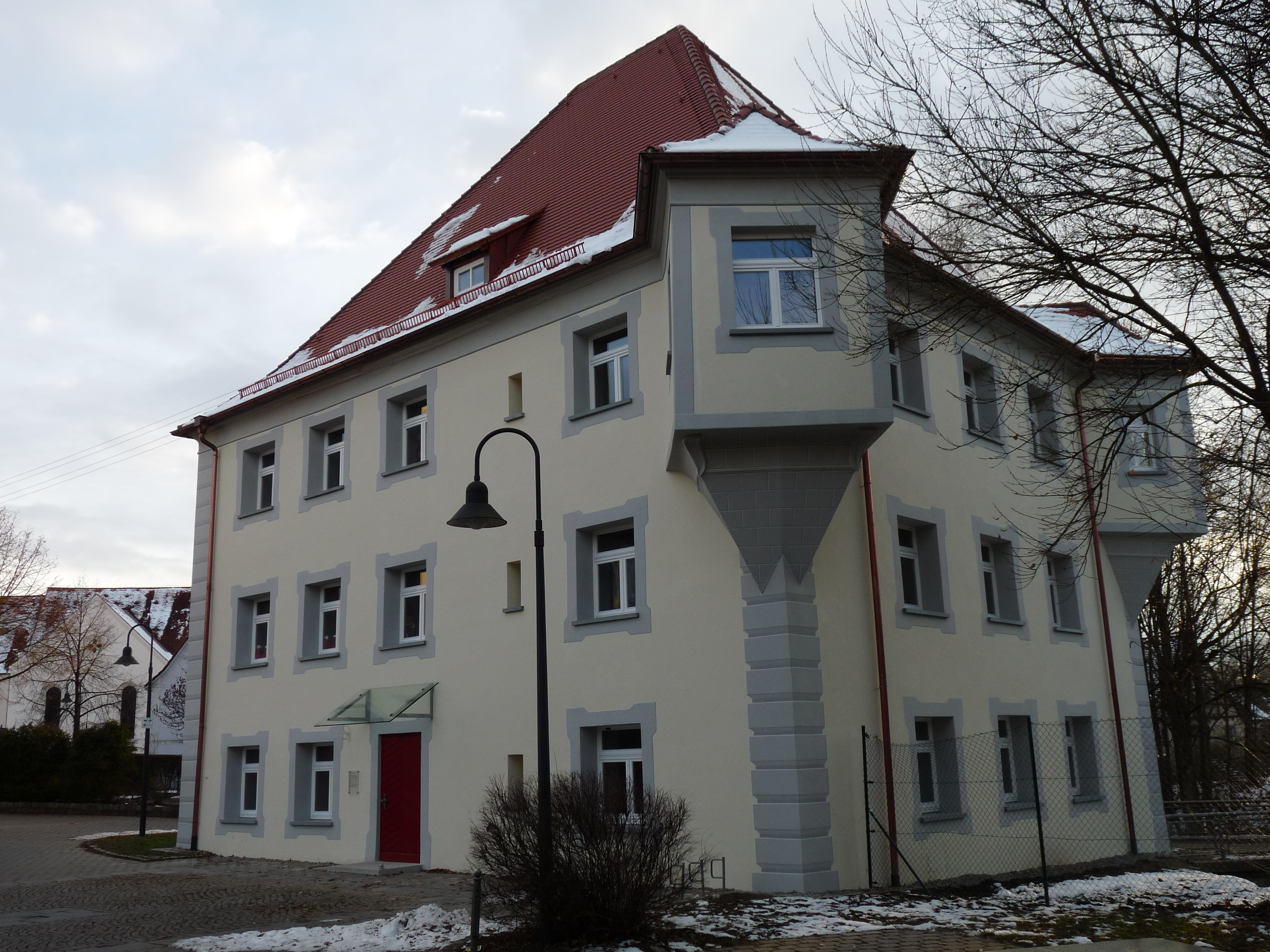 Castle 'Ratzenhofen' in German village Sigmaringendorf